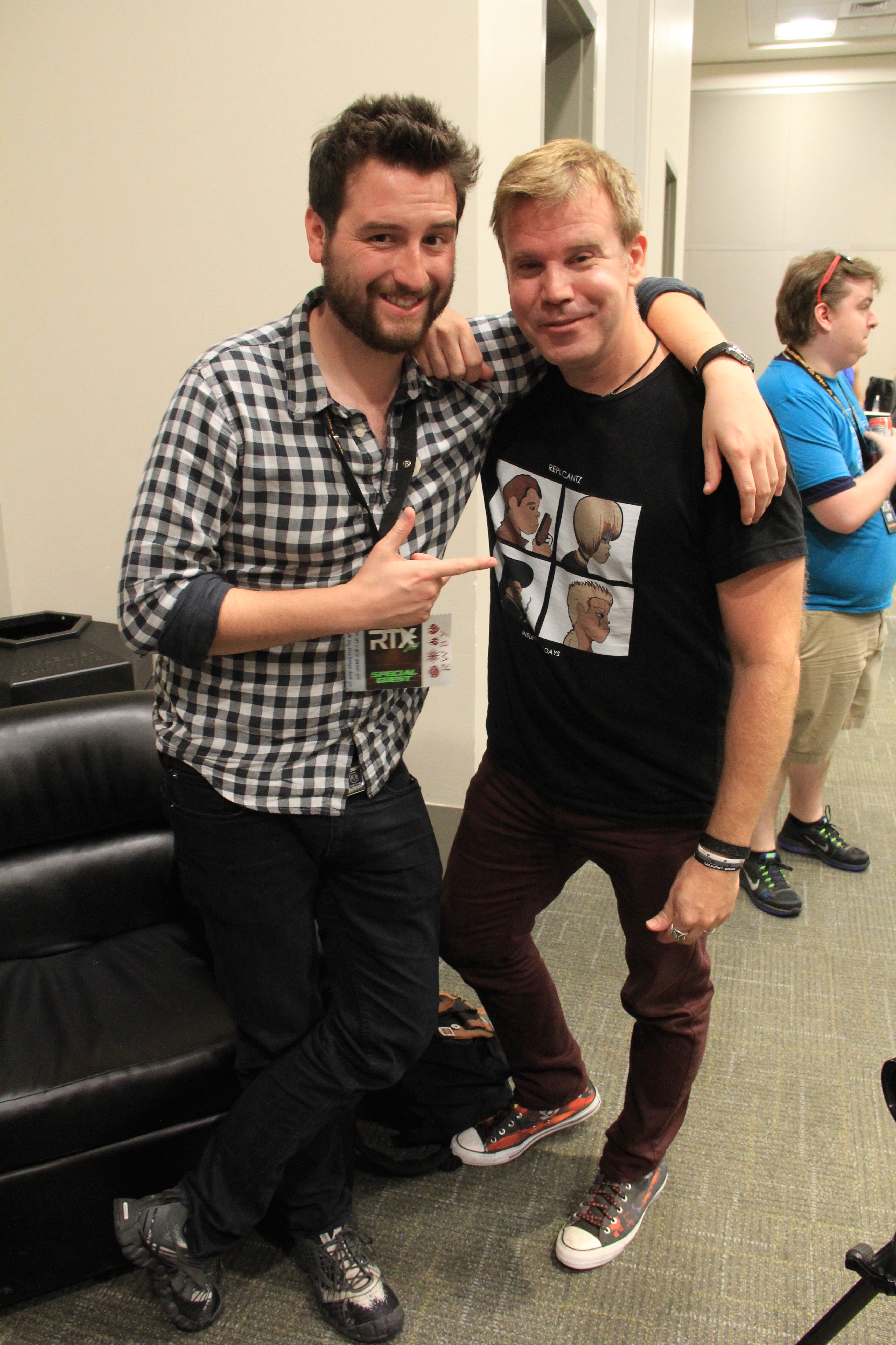 Miles Luna and Gray Haddock of Rooster Teeth. Taken at RTX 2015.